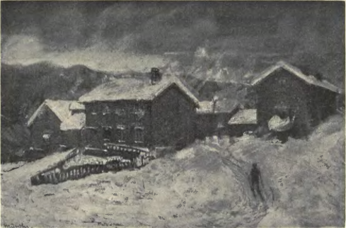 Bjørgan in Kvikne, where Bjørnstjerne Bjørnson lived as a child. Drawing by Gerhard Munthe